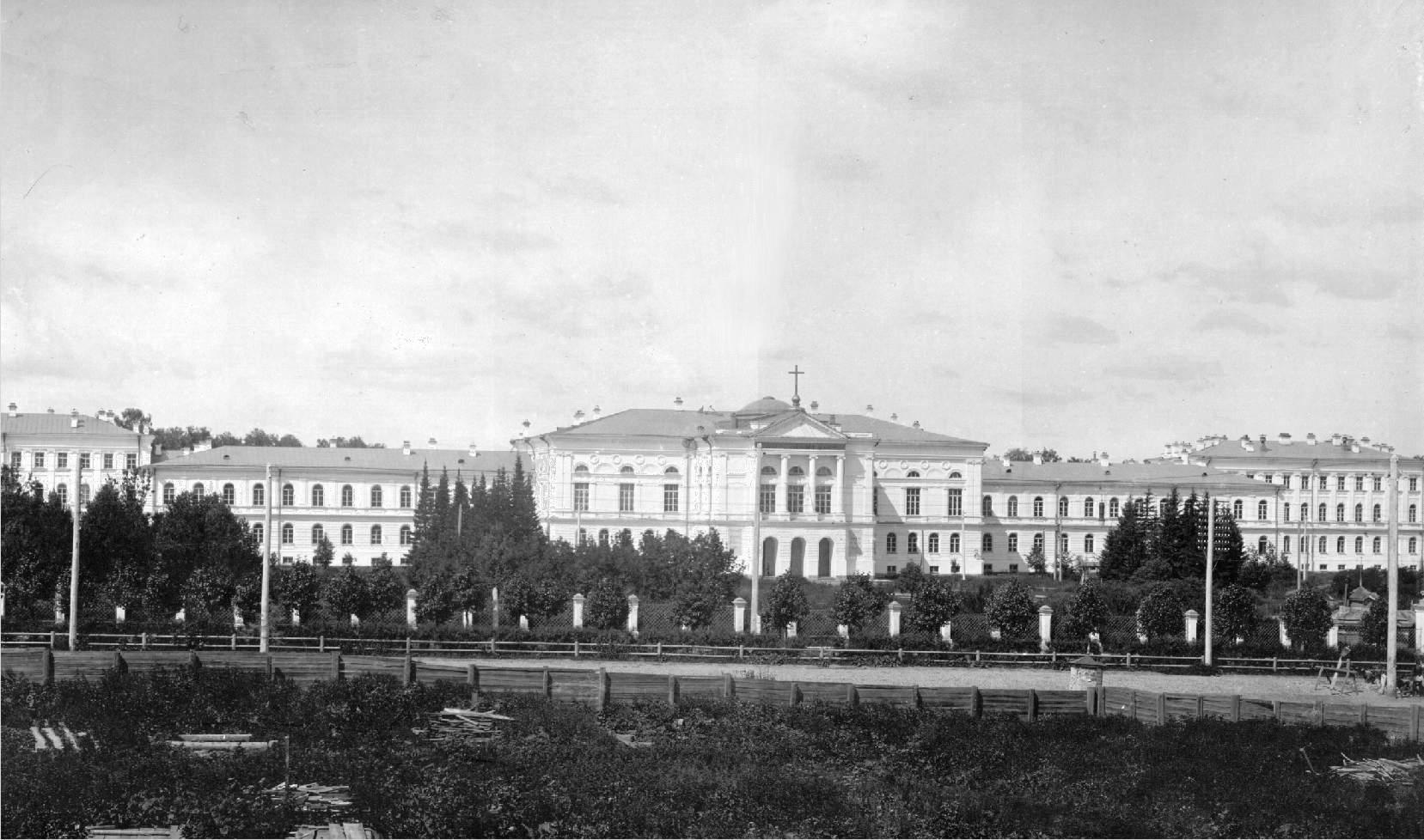 Tomsk State University, 1910